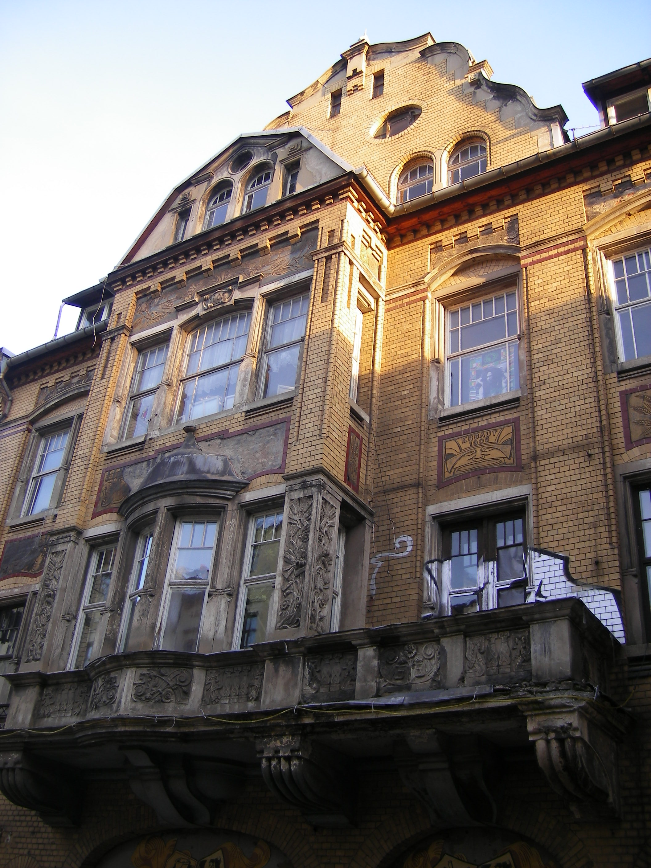 Front of so called Paul-Gustavus-Haus (coffee factory) in Altenburg/Thuringia